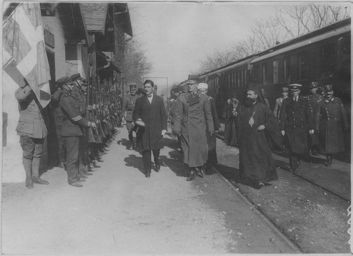 Antante in Sekulevo, today Marina, in 1917